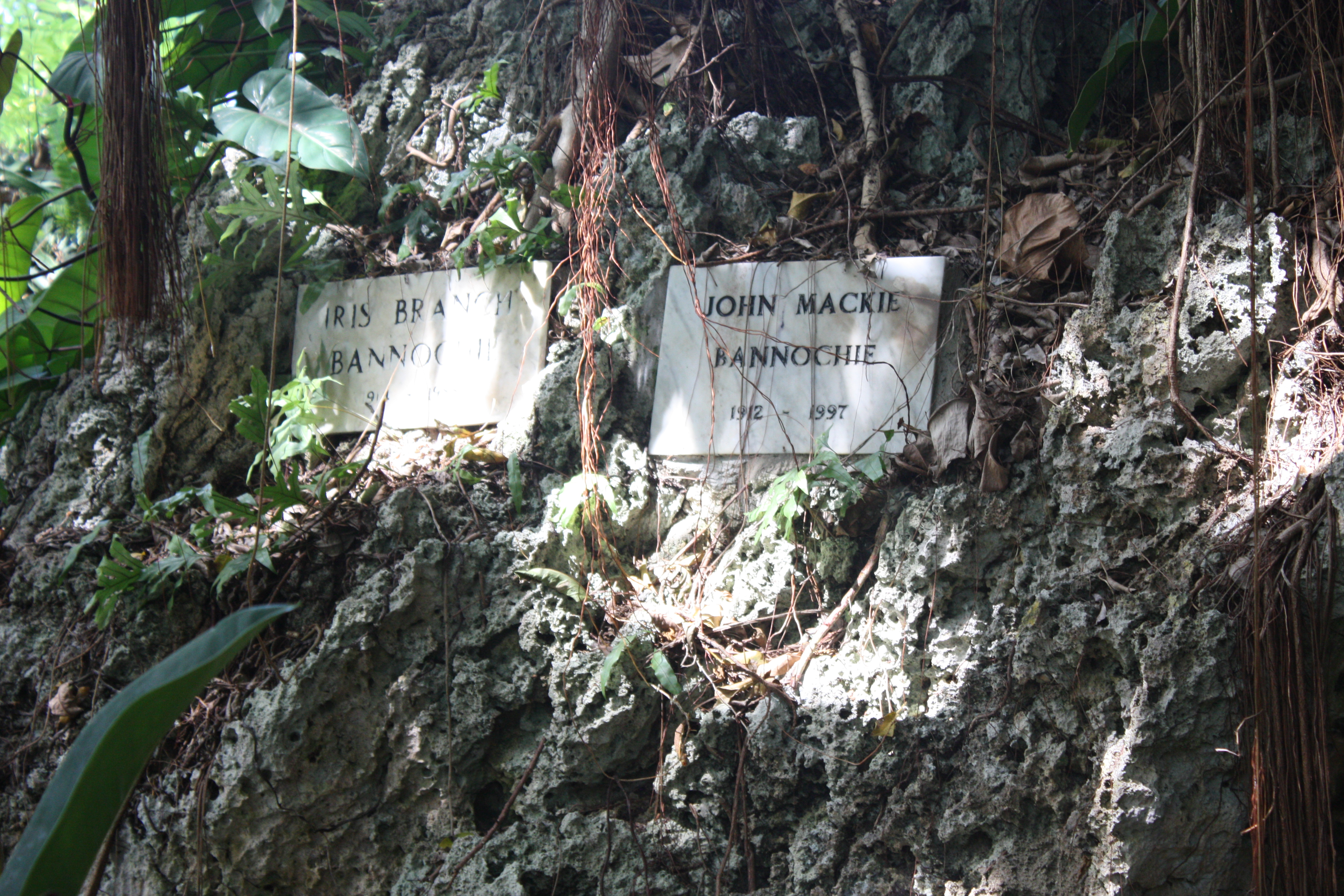 Headstones of the gardens' founders at Andromeda Botanical Gardens, Barbados.